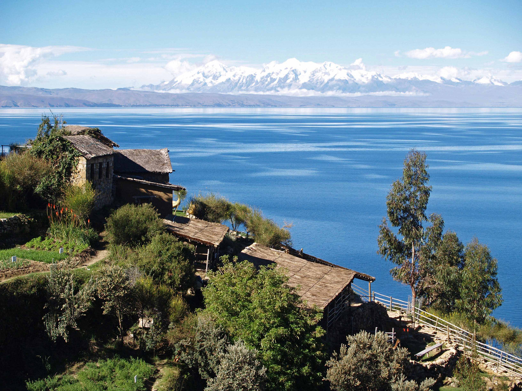 Lake_Titicaca_on_the_Andes_from_Bolivia.